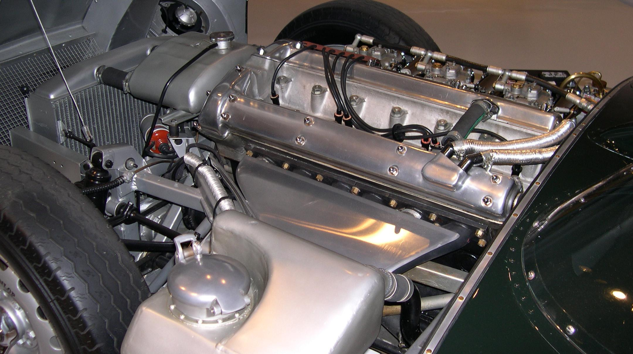 1955 Jaguar XKD Jaguar XK6 engine From the Ralph Lauren collection on display at the Boston Museum of Fine Arts. Photo taken in 2005. Source: Photo by User:Sfoskett